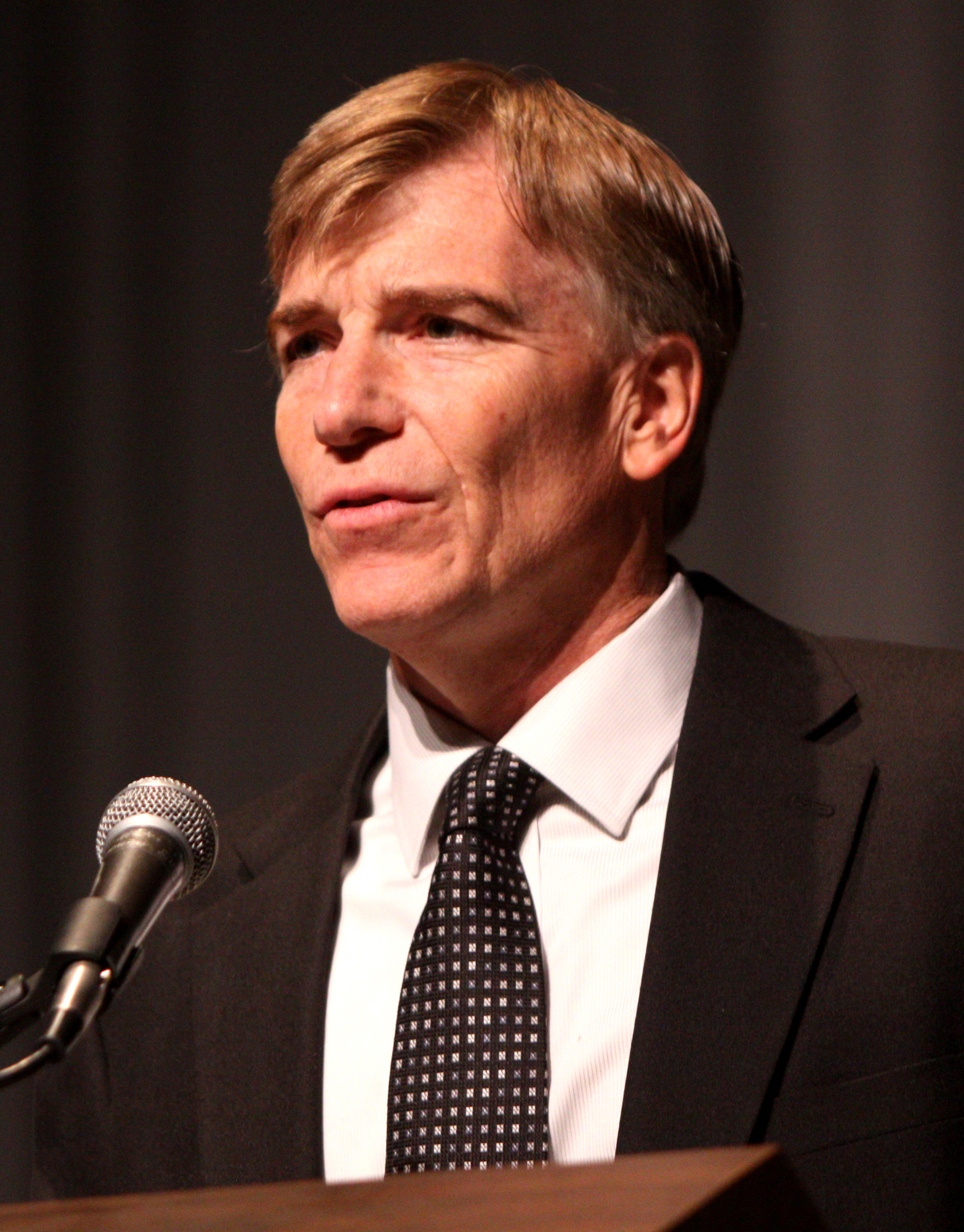 Ivan Eland at a political conference in Reno, Nevada.